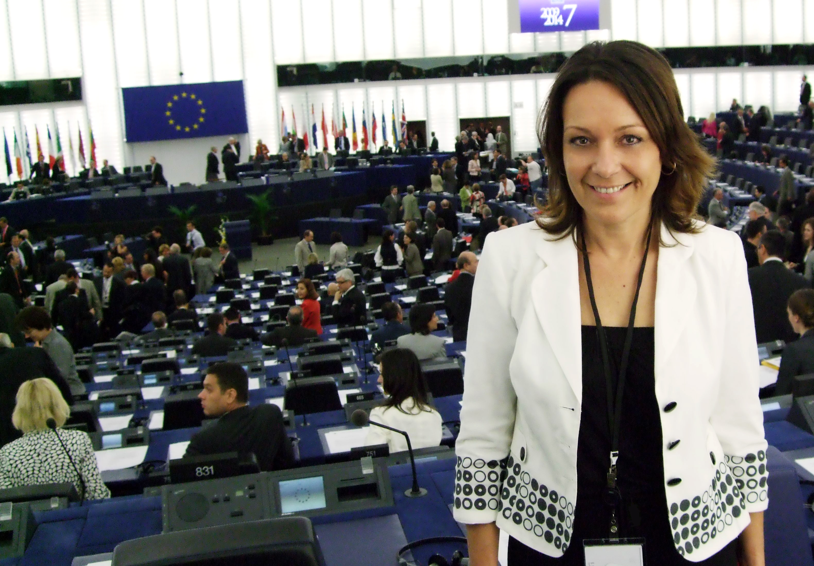 Sylvie Guillaume, french socialist member of the European Parliament